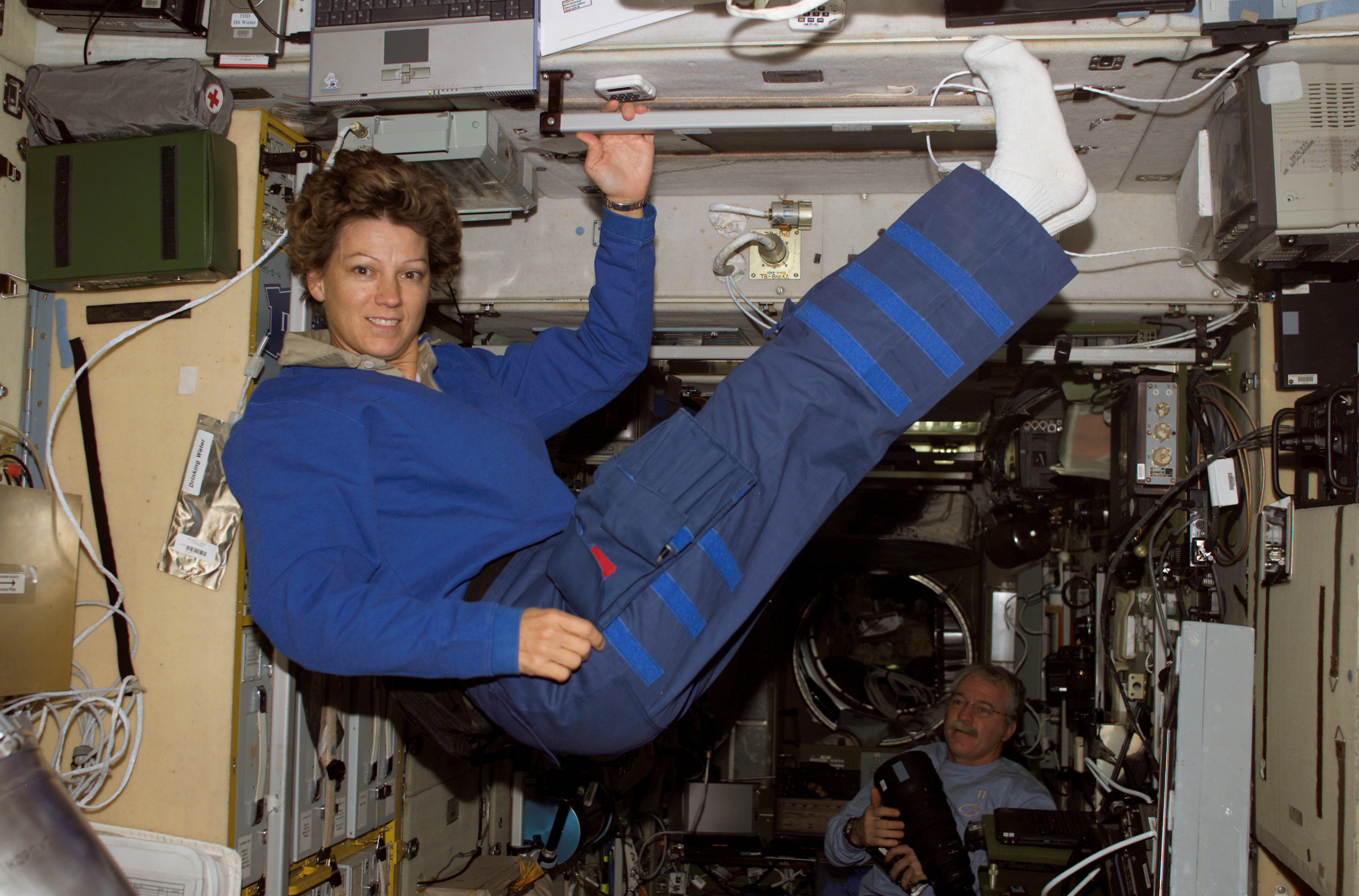 Astronaut Eileen M. Collins, STS-114 commander, floats in the Zvezda Service Module of the International Space Station while Space Shuttle Discovery was docked to the Station. Astronaut John L. Phillips, Expedition 11 NASA Space Station science officer and flight engineer, is visible at bottom right.